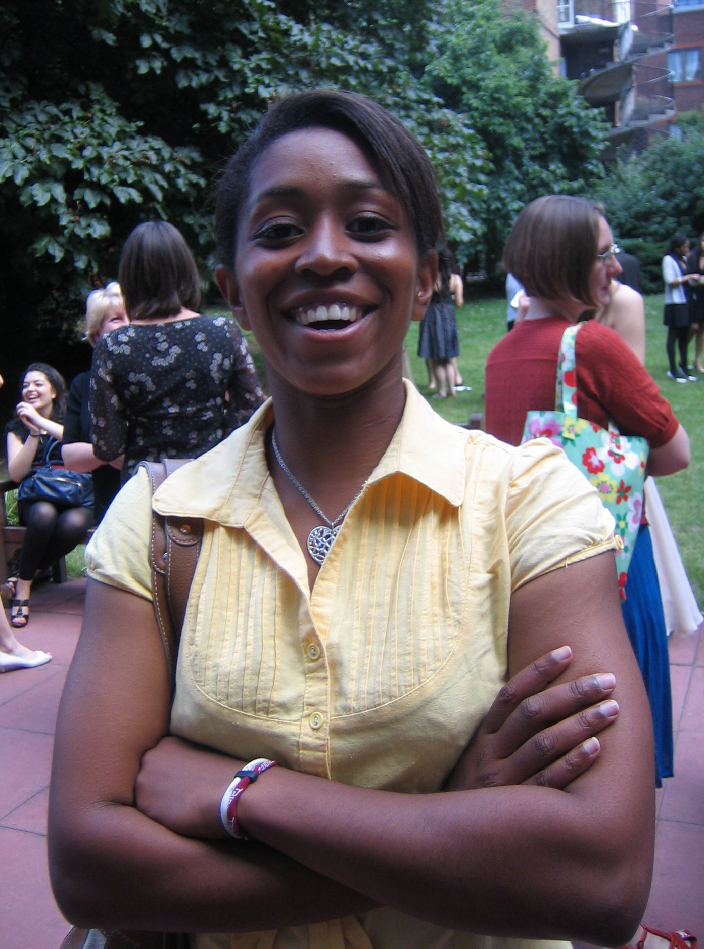 Ebony-Jewel Rainford-Brent, British cricketer, guest speaker at NRA (National Record of Achievement) Day 2008, Grey Coat Hospital School, Westminster, London